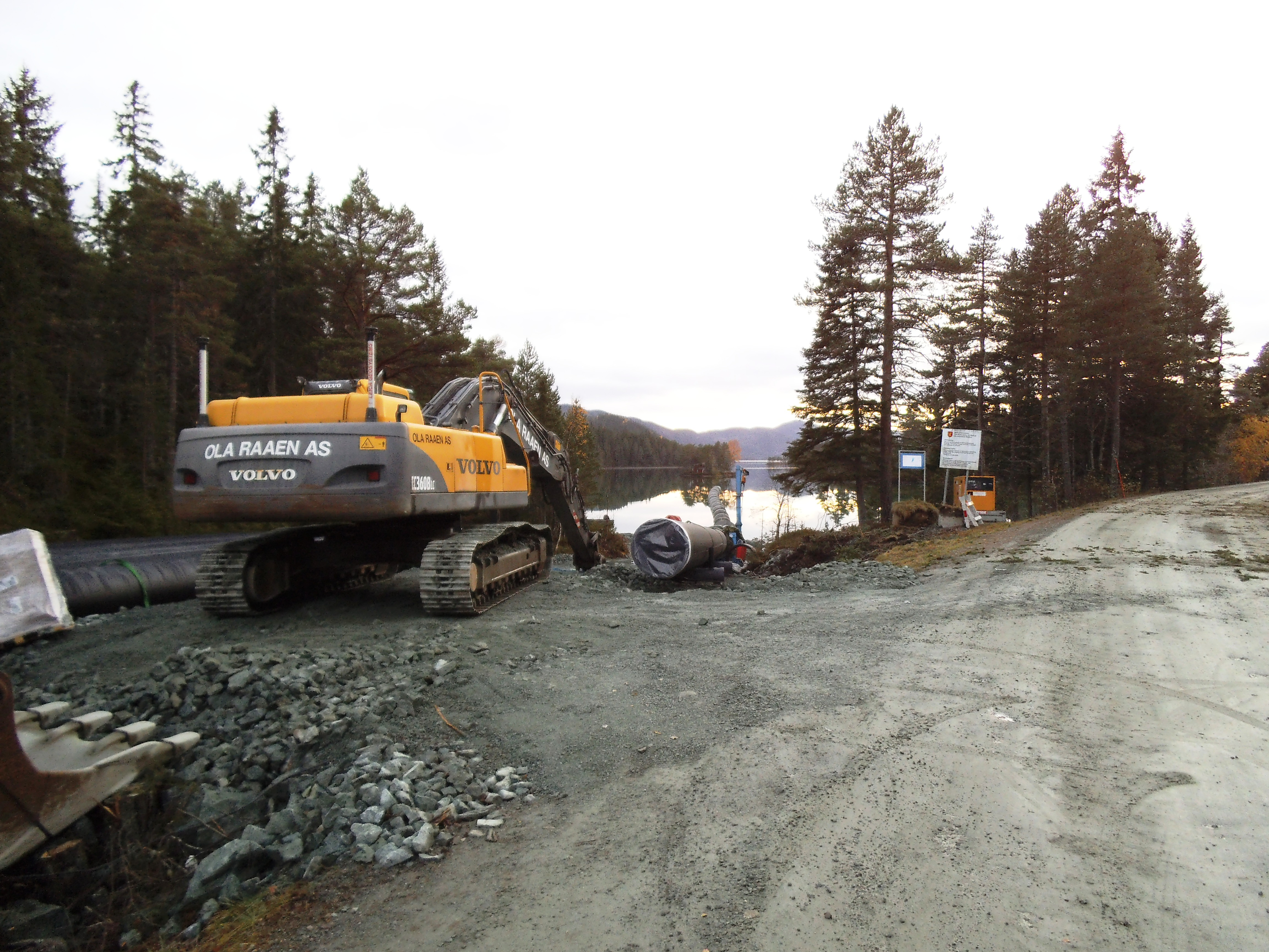 Benna, a lake in Korsvegen, Melhus. Here in the process of being turned into a source for drinking water for Trondheim (2013).